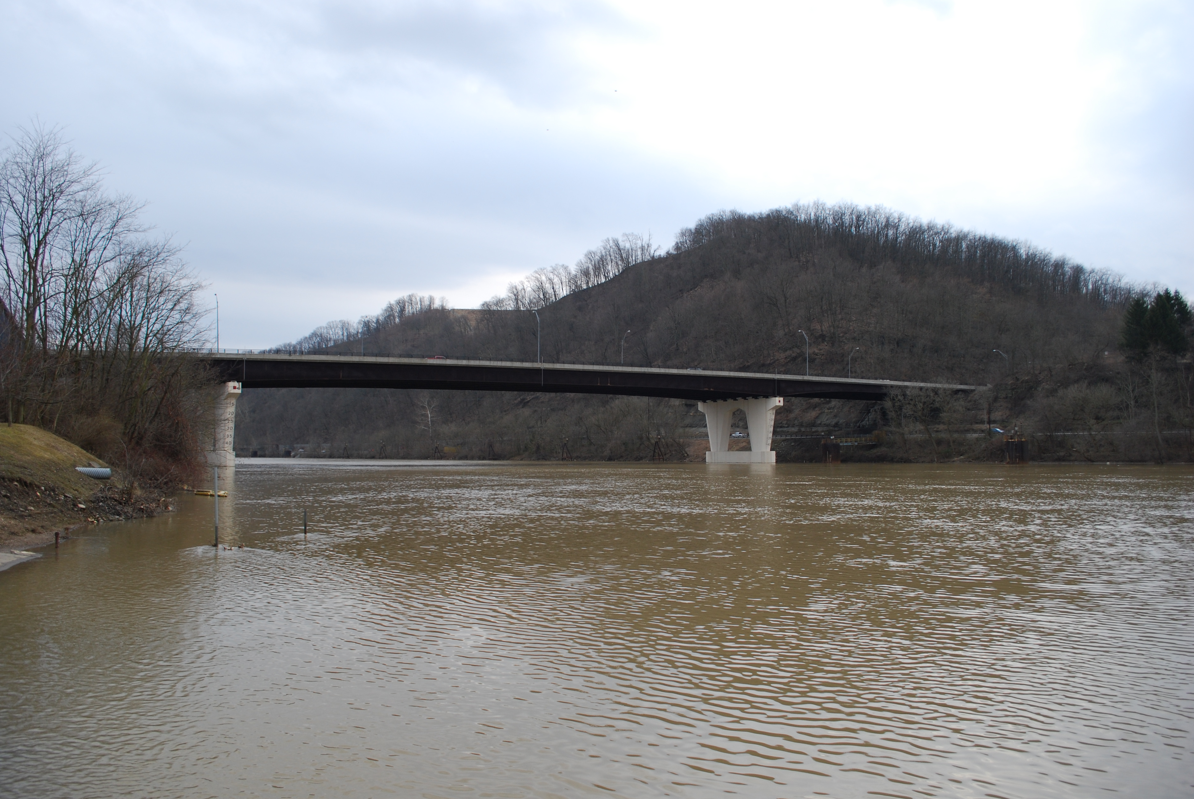 The Star City Bridge carries US 19/WV 7 across the Monongahela River at Star City, West Virginia.